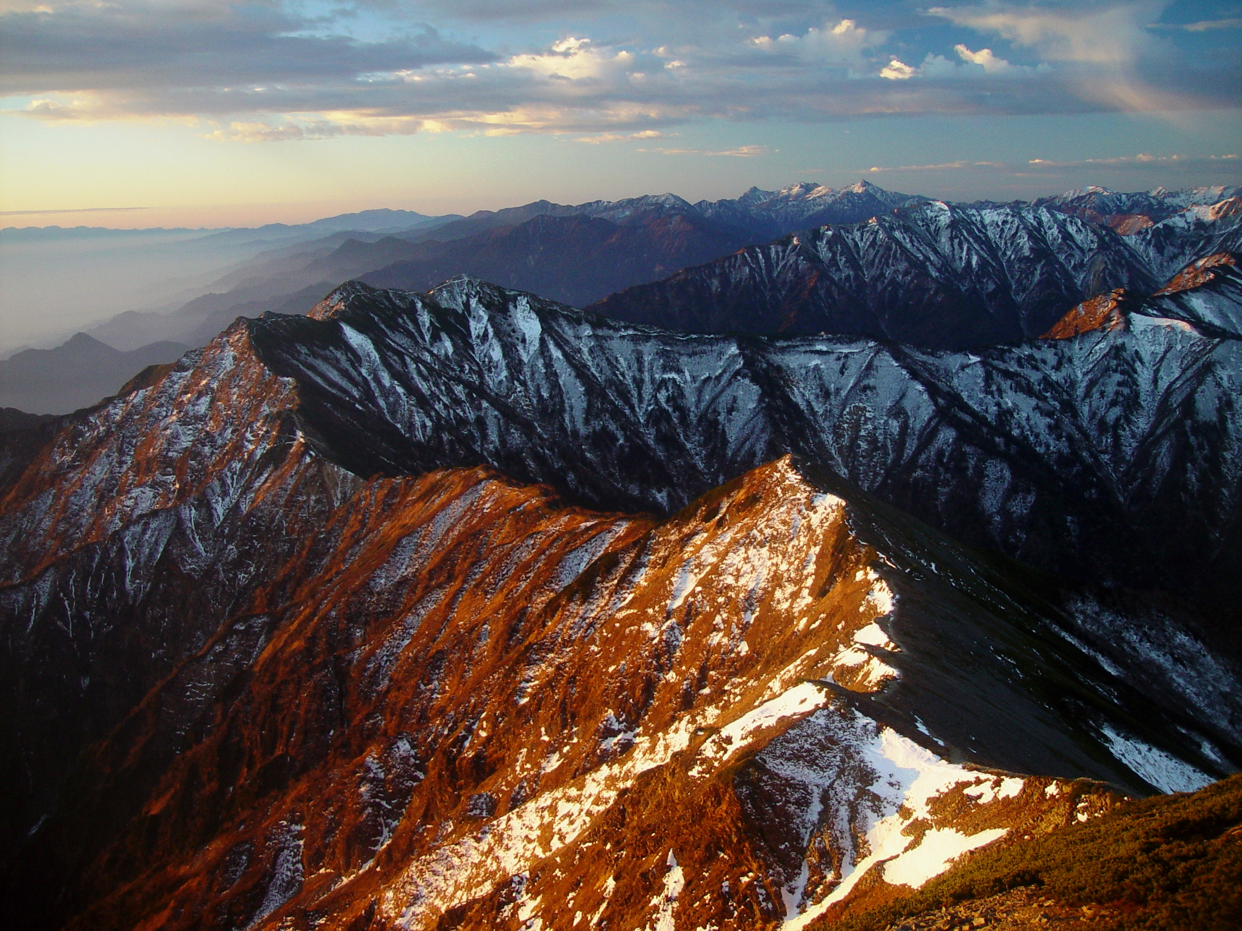 Mount Jii from Mount Kashimayari, Hida Mountains, Japan.